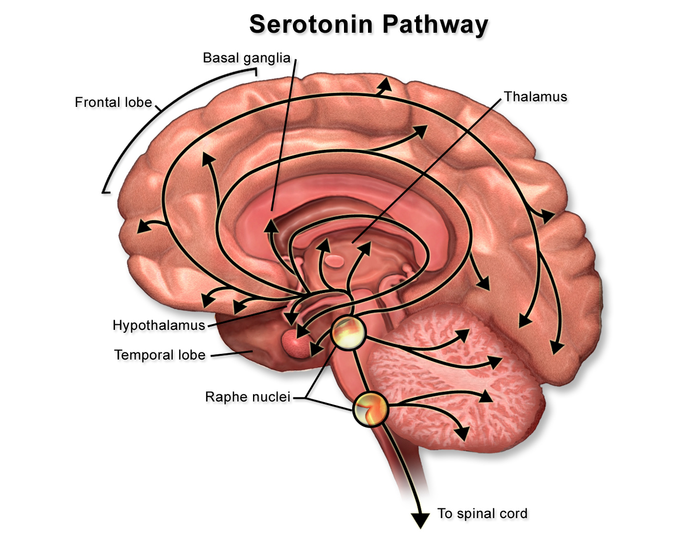 An illustration depicting serotonin.